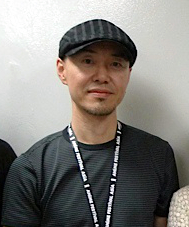 Takanori Aki, Chief Executive Officer of the Good Smile Company, Inc., Takaki Kosaka, President of the Nitroplus Co., Ltd., and Kana Hanazawa, voice actress of the Office Osawa Co., Ltd., attended the Anime Festival Asia at the Suntec Singapore Convention and Exhibition Centre in Singapore on November 14, 2010.